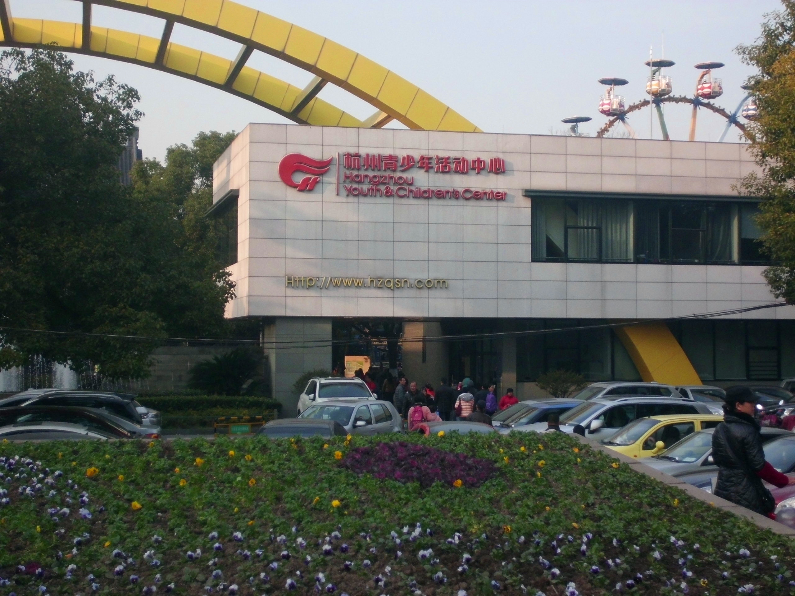 Hangzhou Youth and Children's Center